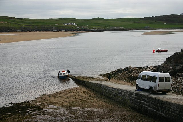 West Keoldale jetty This is the jetty on the Cape Wrath side of the Kyle of Durness; the minibus awaits the boat's arrival before transporting its passengers to the lighthouse at the Cape.